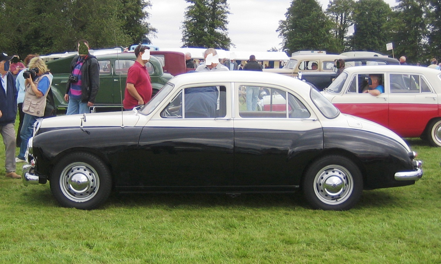 MG Magnette ZB at Knebworth Classic Car Show